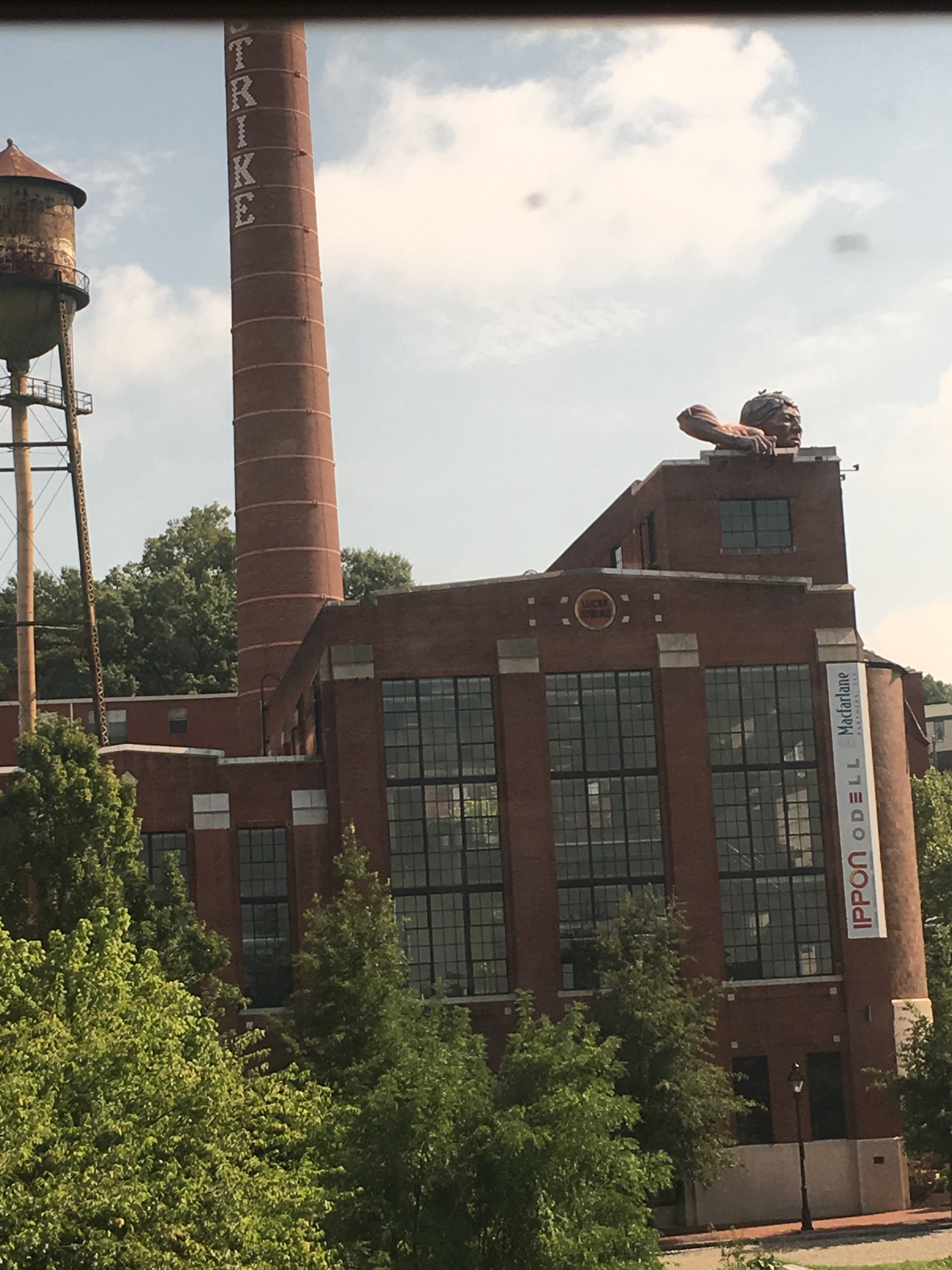 Taken from northbound Amtrak train coming into Richmond. This was originally the statue for the Richmond Braves Baseball Team. When the Flying Squirrels Basball Team moved in, the statue was moved in 2010 to the 4 th floor of an old Richmond tobacco factory. It is an impressive sight from the train. His name is"Connecticut". Located near the James River which has been referred to as the "Indians' superhighway"